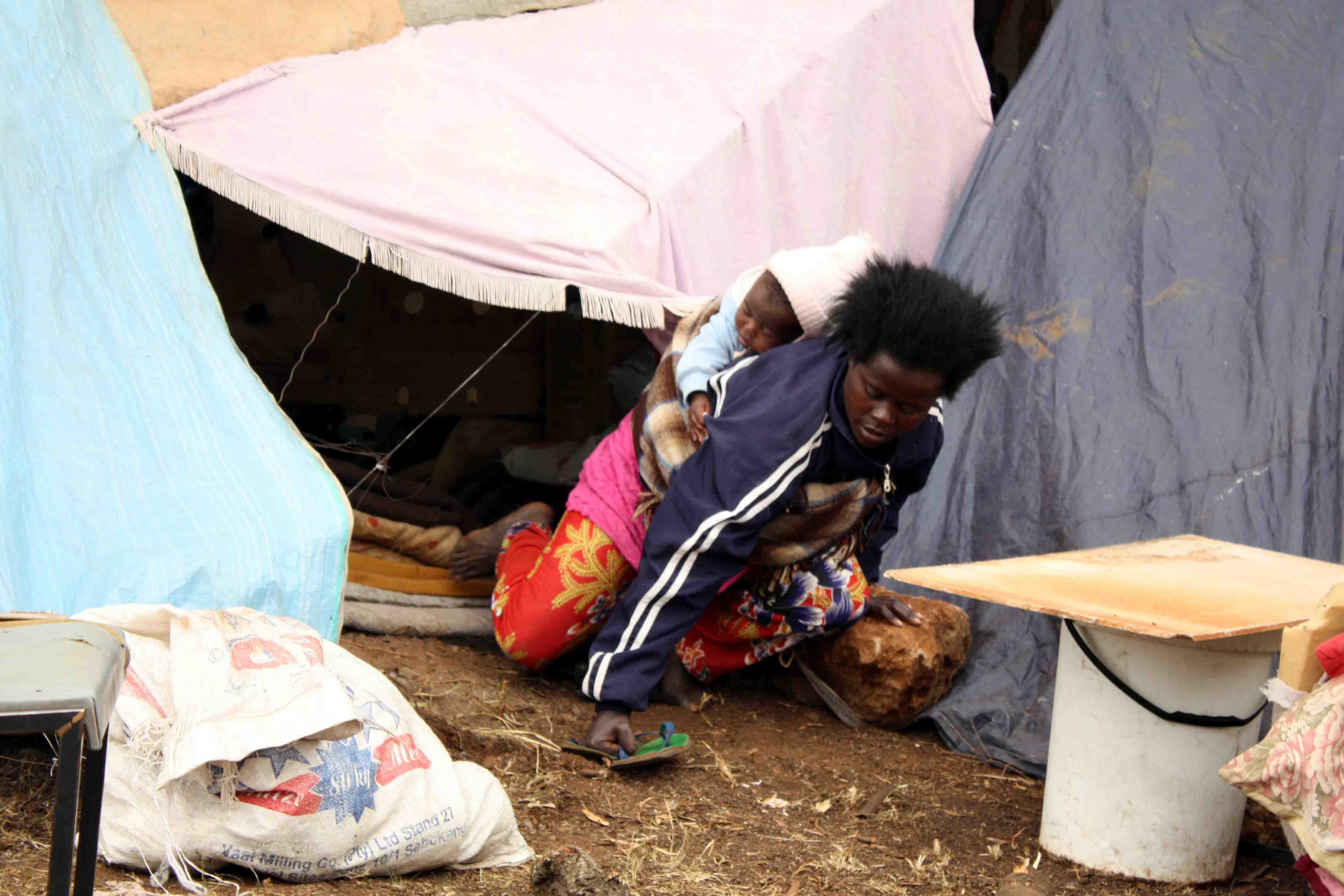 Arine Tusenge from Burundi is among refugees that found themselves out in the open again after several they were evicted from a shelter on the vaal, south africa.They had been moved to the shelter after 2008's Xenophobia related attacks. They fear re-intergration into society and prefer to stay in the open.01-10-09